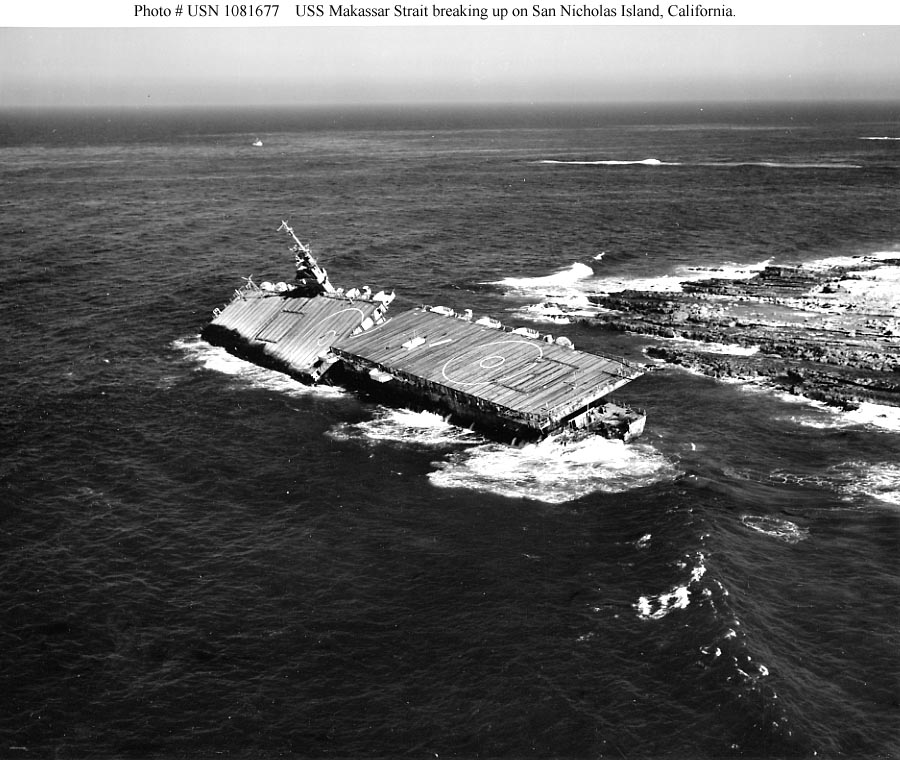 Ex-USS Makassar Strait (CVU-91) breaking up on San Nicholas Island, California, where she had gone ashore while used as a Pacific Missile Range target ship. Photographed on 22 January 1963.